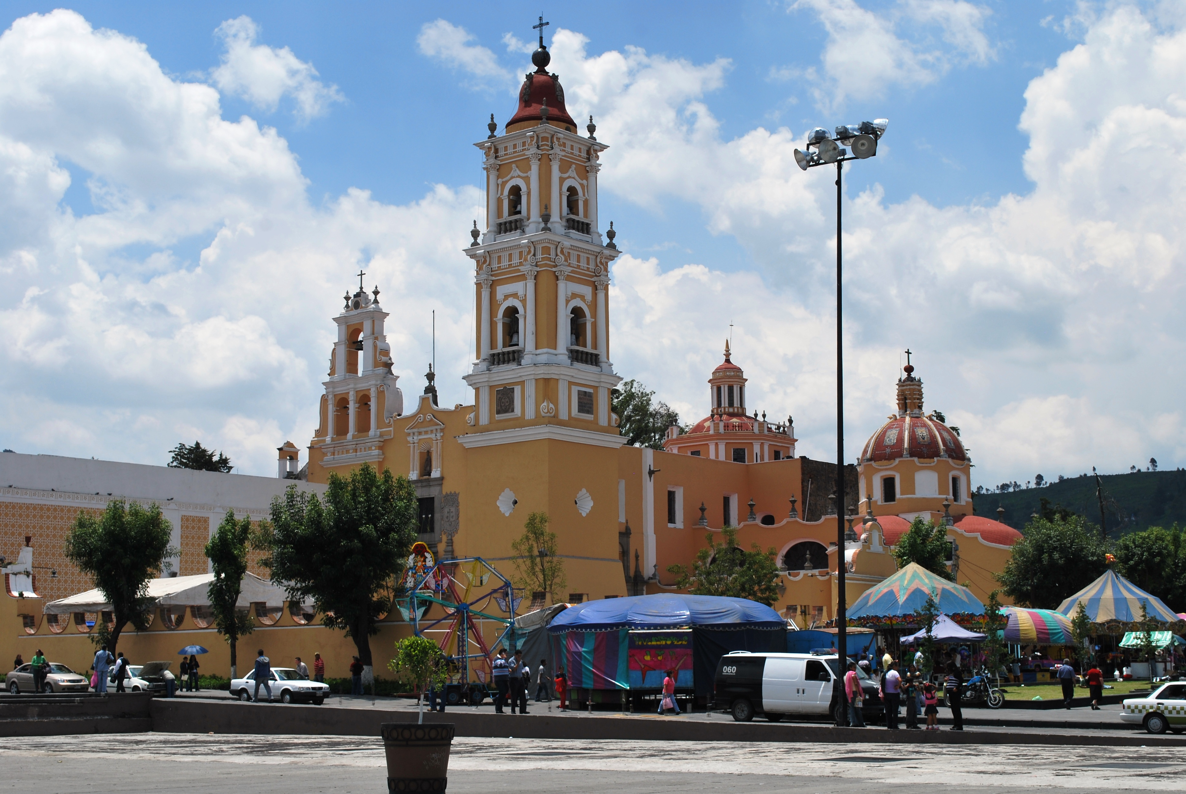 Church del Carmen as seen from the Plaza del Carmen in Toluca, Mexico State